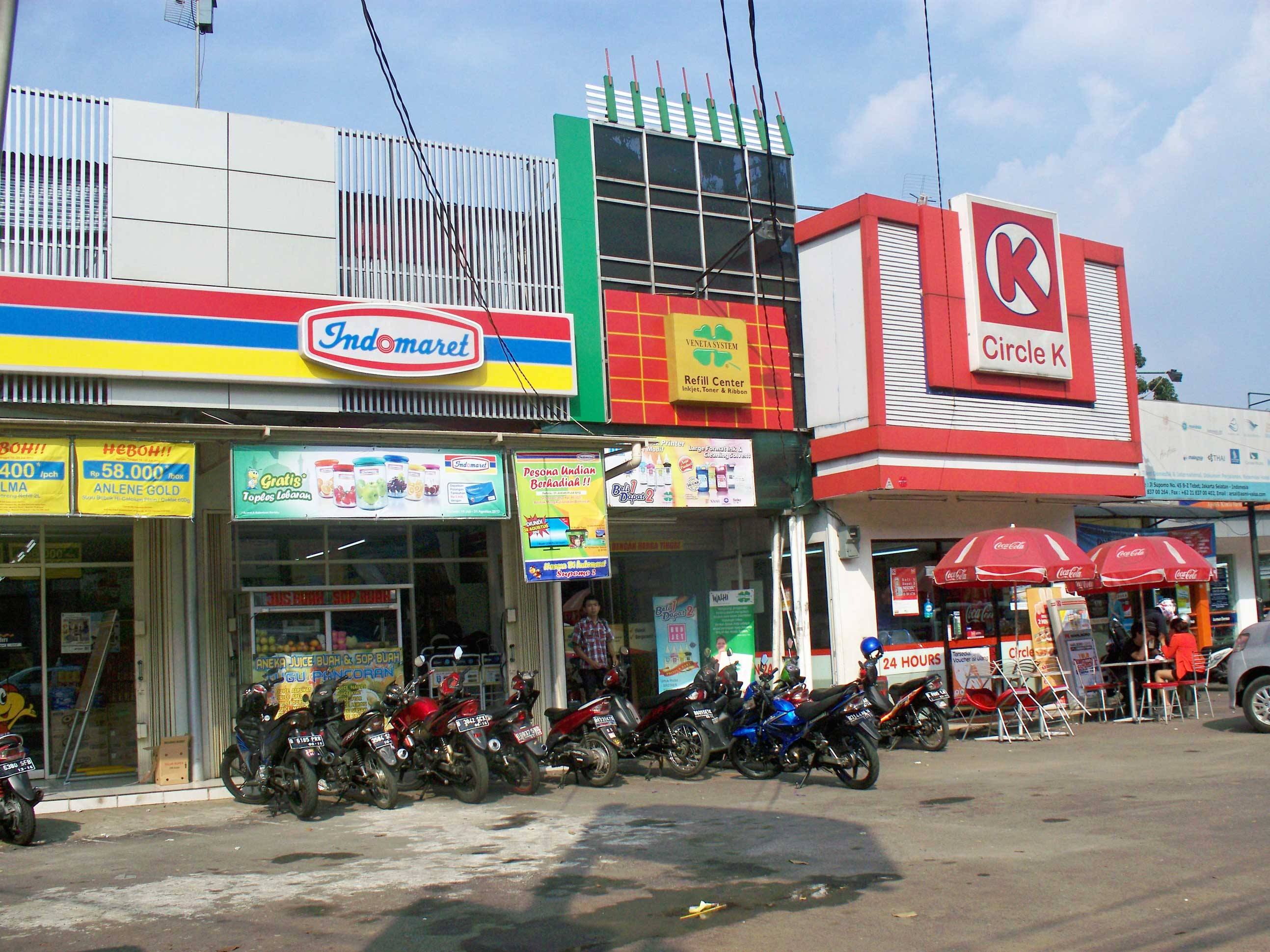 Circle K